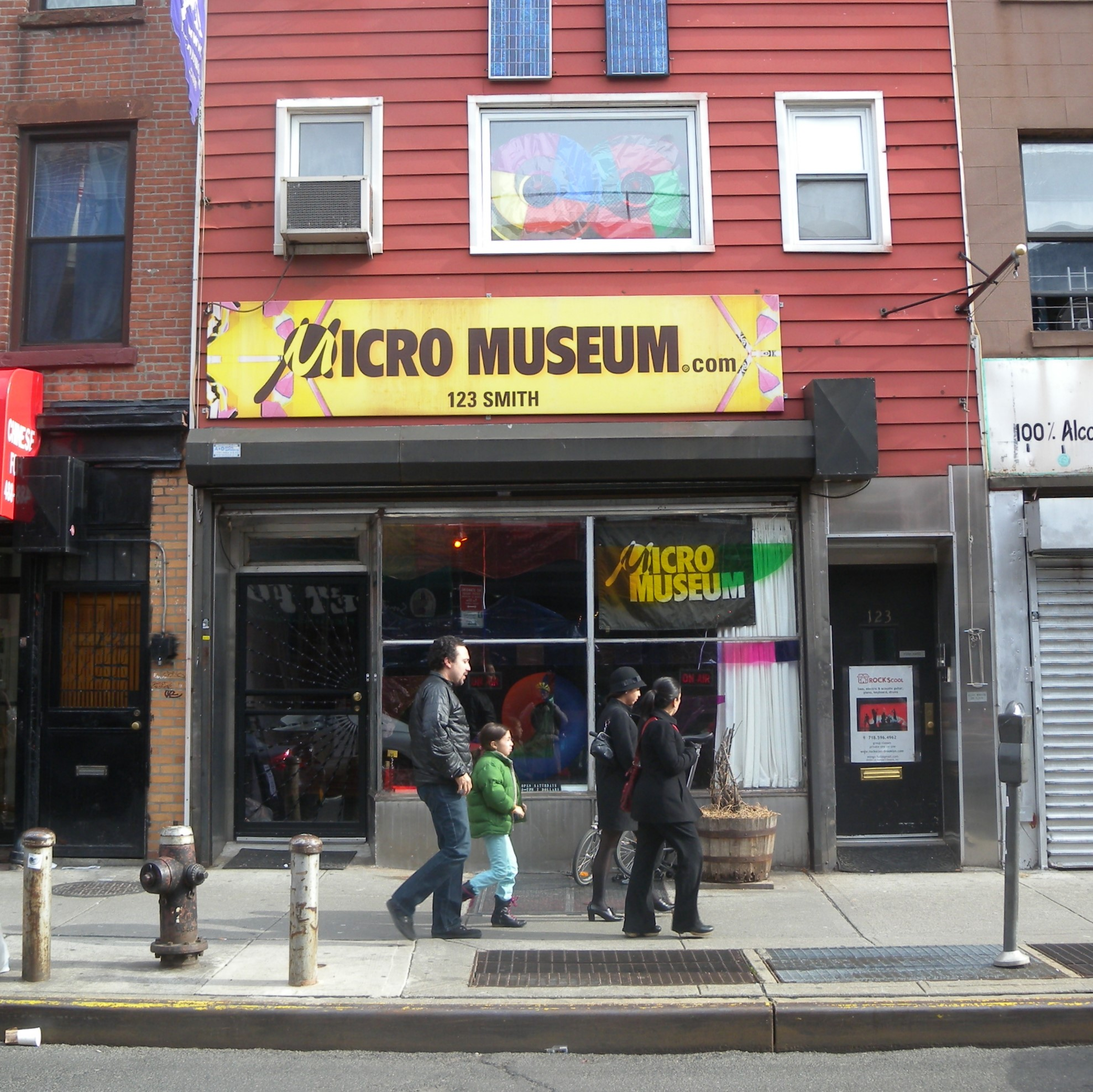 Looking east across Smith at Micro Museum on a mostly cloudy early afternoon.